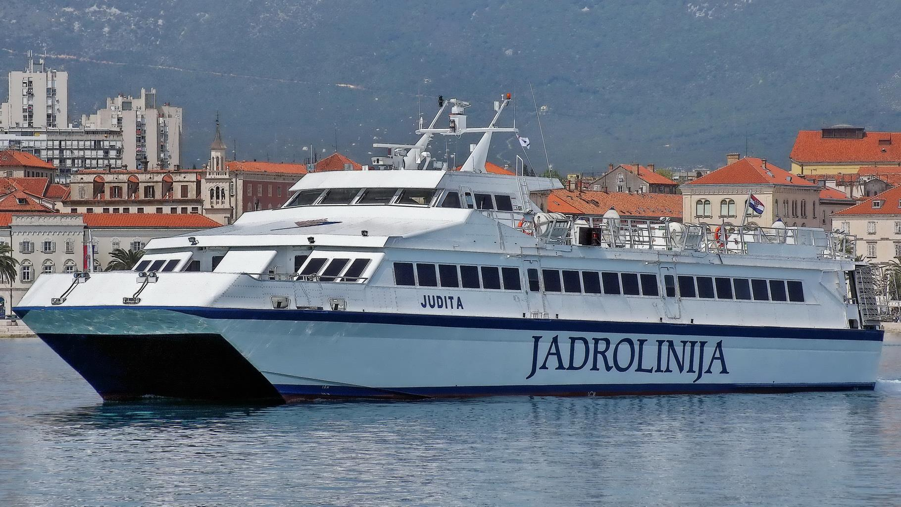 Judita in Split harbour. Time-space: Apr 29, 2012; CEST 14:05:24; N 43°30'21" E 16°26'11".